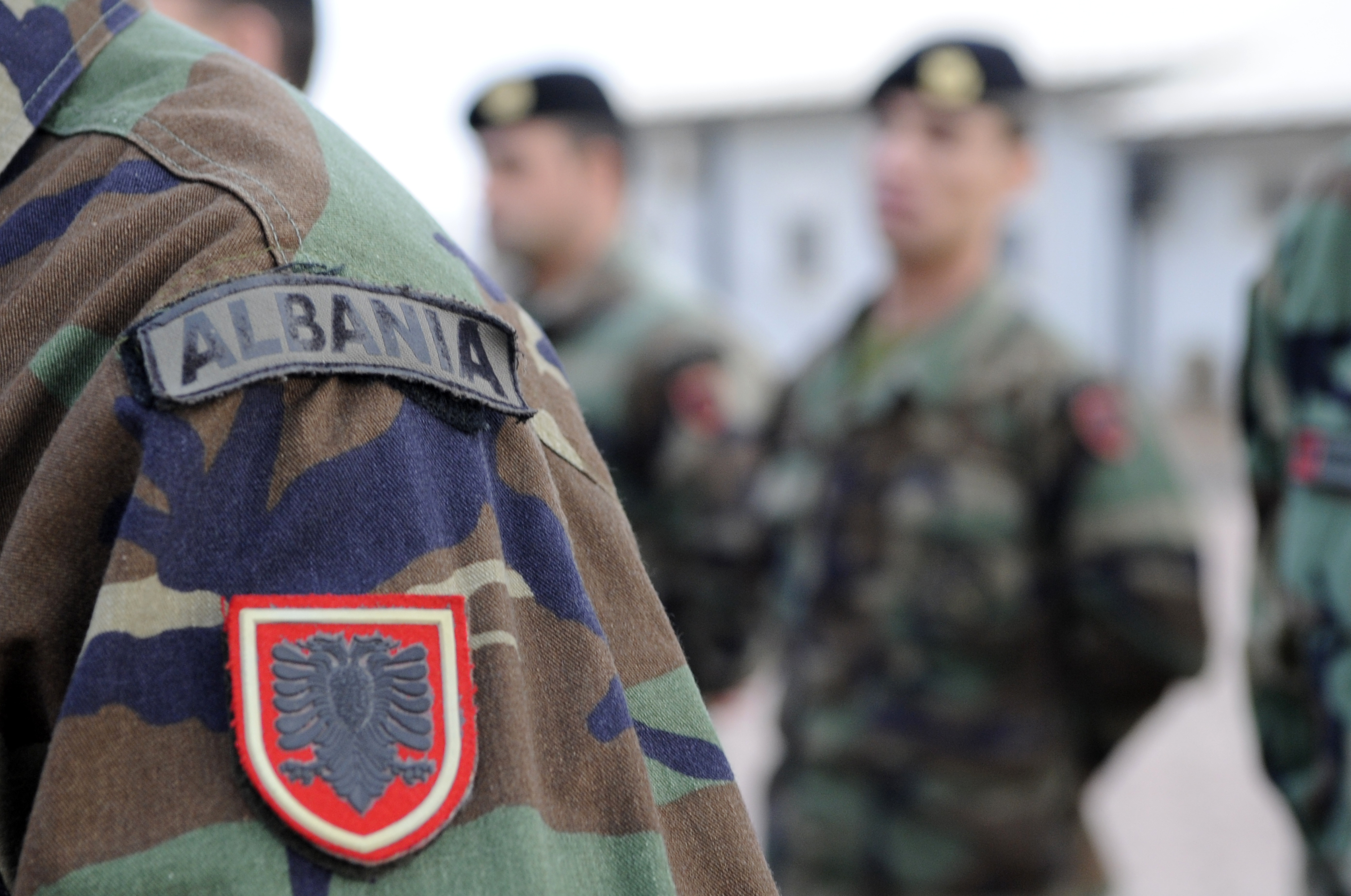 HERAT, Afghanistan--Albanian Army soldiers stand in formation awaiting a flag raising ceremony honoring Albanian independence day at International Security Assistance Force Regional Command West Headquarters, Nov. 28.